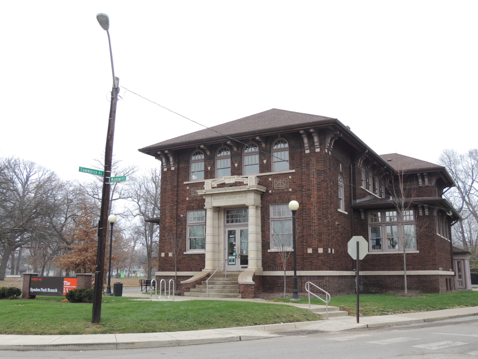 The entrance of the Spades Park Branch of Indianapolis Public Library.